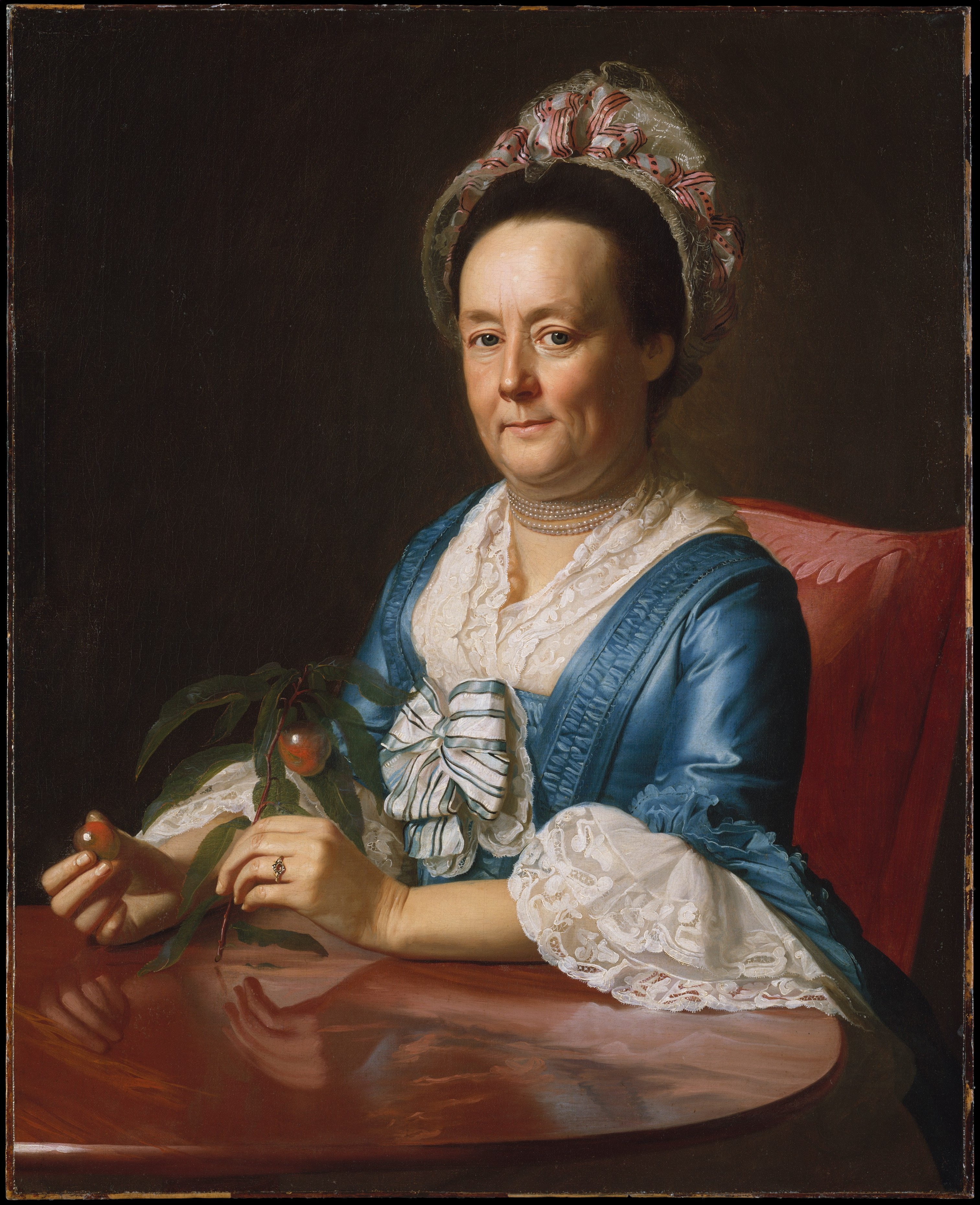 Mrs. John Winthrop Artist: (American, Boston, Massachusetts 1738–1815 London) Date: 1773 Medium: Oil on canvas Dimensions: 35 1/2 x 28 3/4 in. (90.2 x 73 cm) Classification: Paintings Credit Line: Morris K. Jesup Fund, 1931 Hannah Fayerweather (1727–1790) was the daughter of Thomas and Hannah Waldo Fayerweather. She was baptized at the First Church in Boston in February 12, 1727. She was married twice, in 1745 to Parr Tolman and in 1756 to John Winthrop, a professor of mathematics and natural history at Harvard University and a noted astronomer. Although this portrait has traditionally been dated 1774, a receipt dated June 24, 1773, places its execution in the previous year. The portrait is one of a number in which Copley prominently featured a beautifully reflective tabletop.